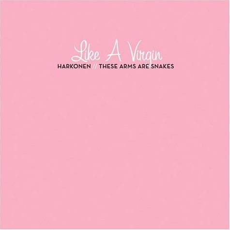 Cover art of Like a Virgin (EP) by Harkonen and These Arms Are Snakes